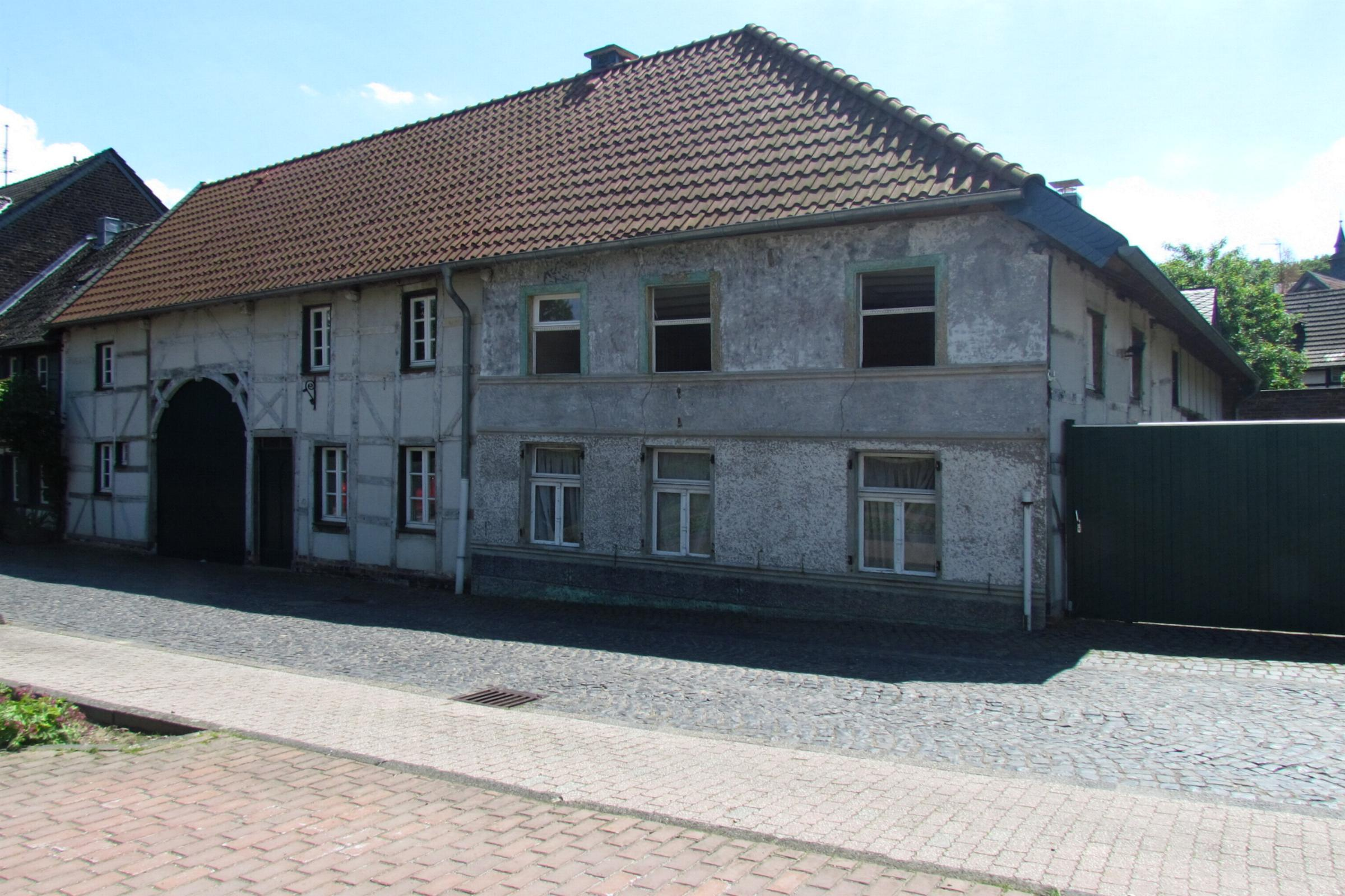 This is a photograph of an architectural monument.It is on the list of cultural monuments of Korschenbroich